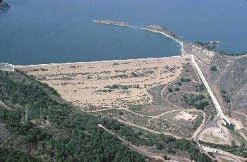 Casitas Dam on Coyote Creek, impounding Lake Casitas reservoir — in the Los Padres National Forest, Ventura County, California